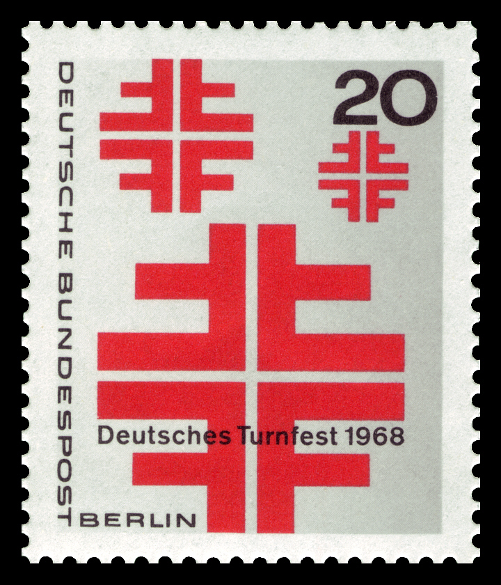 German Turnfest in Berlin